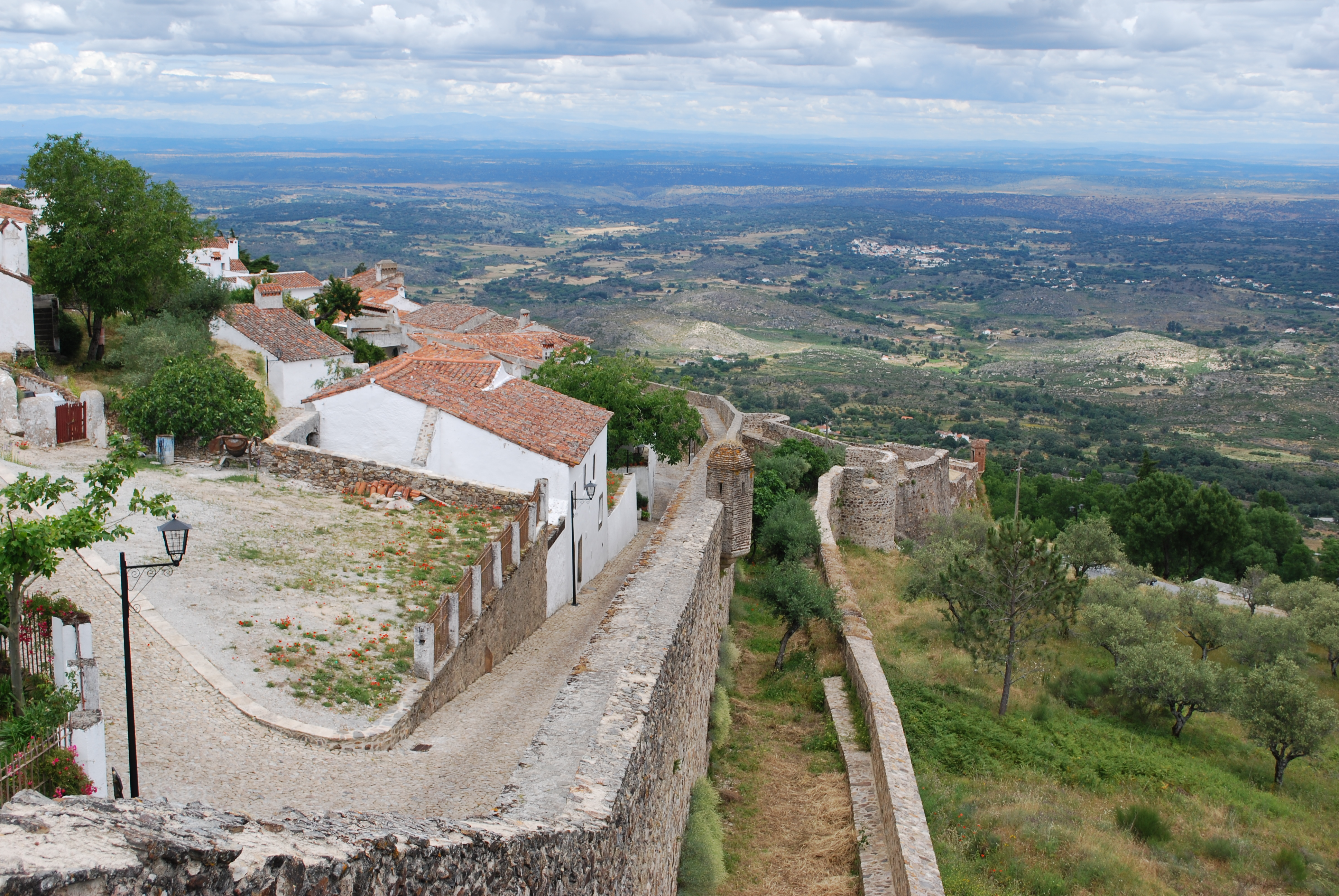 This file was uploaded for Wiki Loves Monuments in Portugal with the unique identifier 71821.